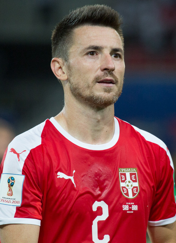 Serbian footballer Antonio Rukavina on 27 June 2018, during the 2018 FIFA World Cup group stage match between Serbia and Brazil.